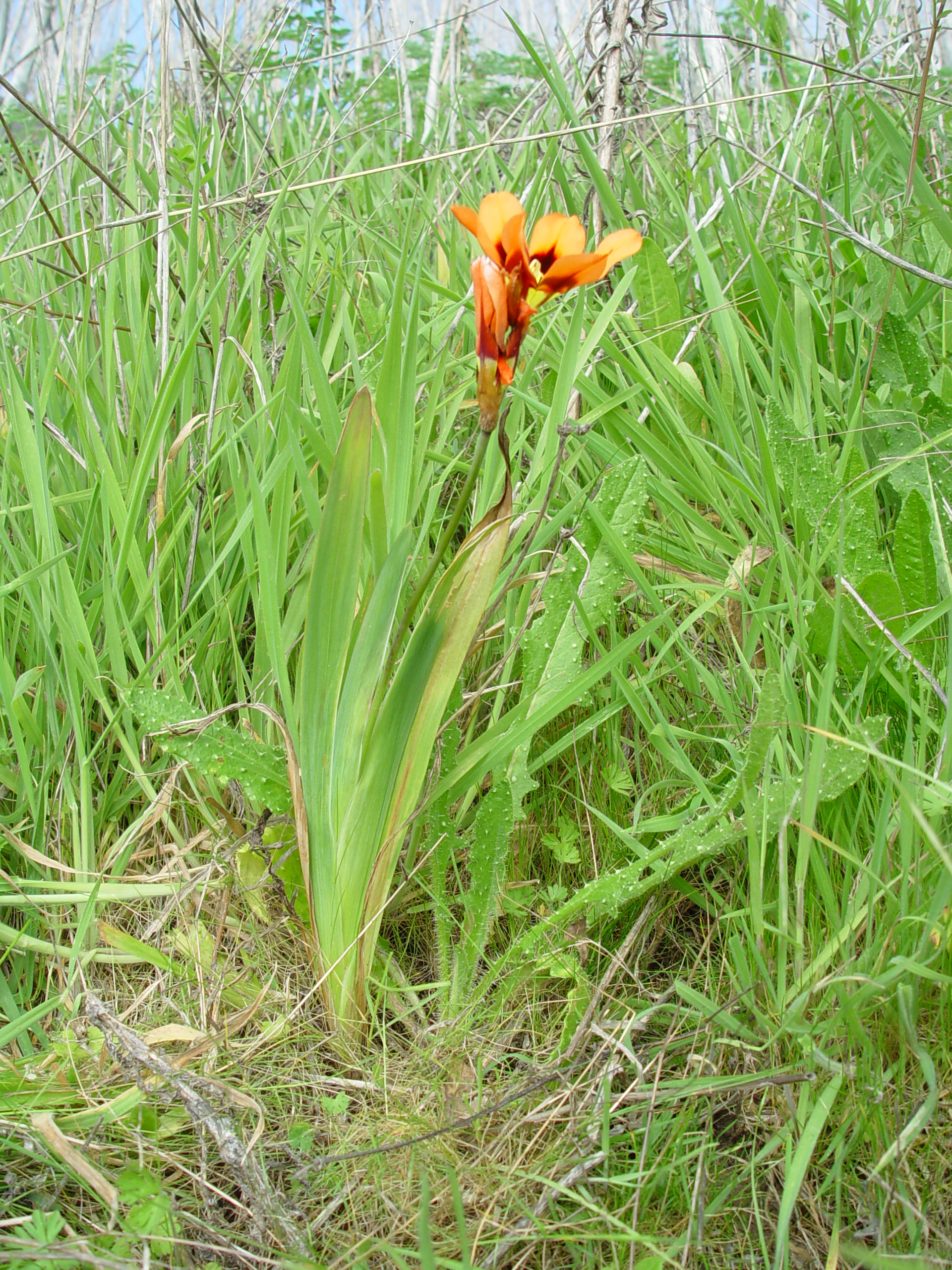 Wandflower (Sparaxis tricolor) Family: Iridaceae Notes: Sparaxis tricolor (Iridaceae) is non native of California. It was introduced from South Africa and naturalized in the wild. Tennessee Valley Marin County, CA ___________________ Calflora